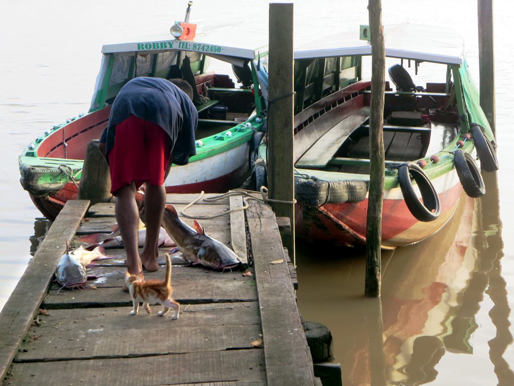 Collecting catfish on a wharf at Johanna Margaretha on the Commewijne River, Suriname.